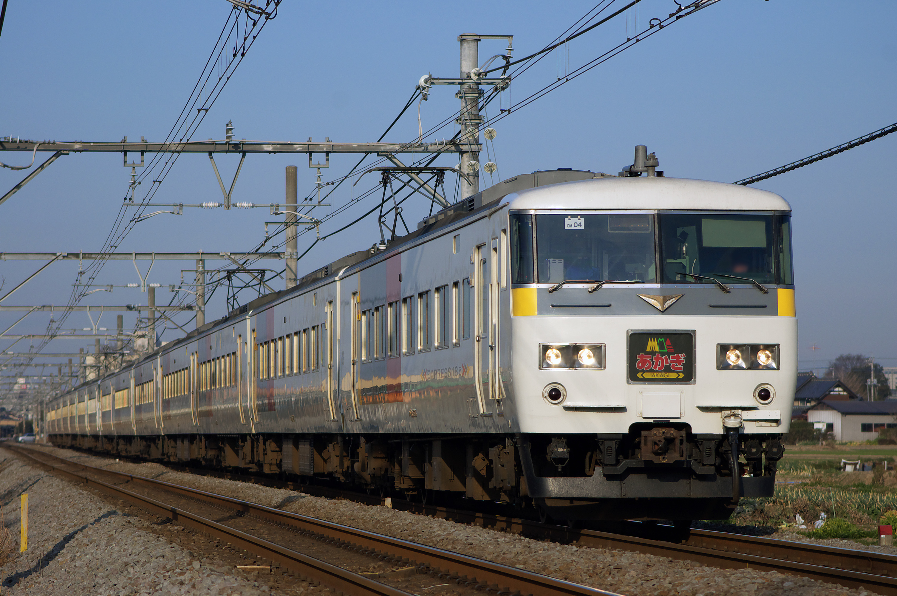 JR East 185-200 series EMU on an Akagi limited express service